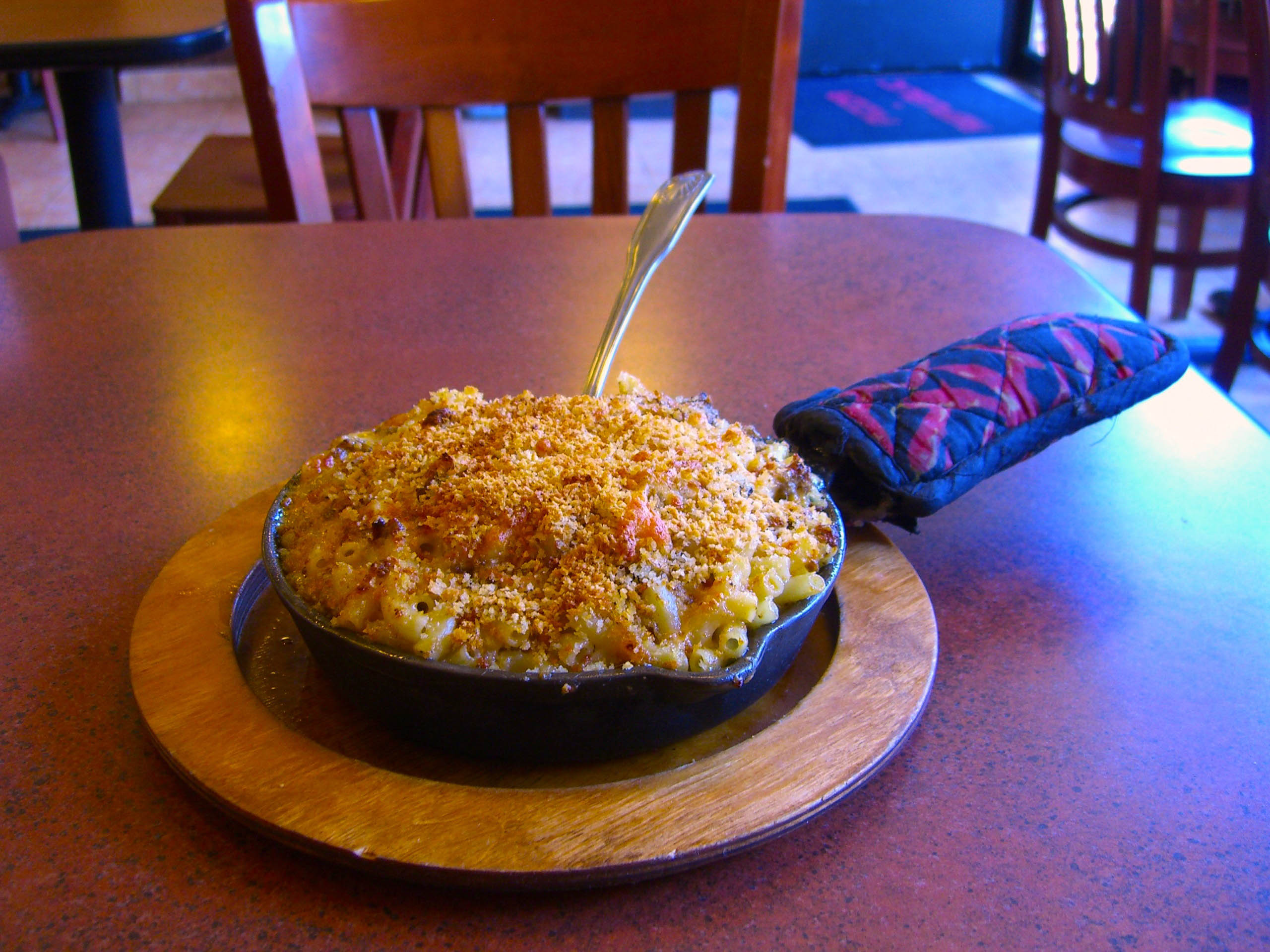 An order of "cheeseburger" macaroni and cheese, ordered at Pizza Republic, a pizzeria in Hoboken, New Jersey whose menu includes a macaroni and cheese menu featuring 14 different variations of the dish. The cheeseburger variation includes ground beef, and is topped with bread crumbs. This photo was created by Luigi Novi. It is not in the public domain, and use of this file outside of the licensing terms is a copyright violation.